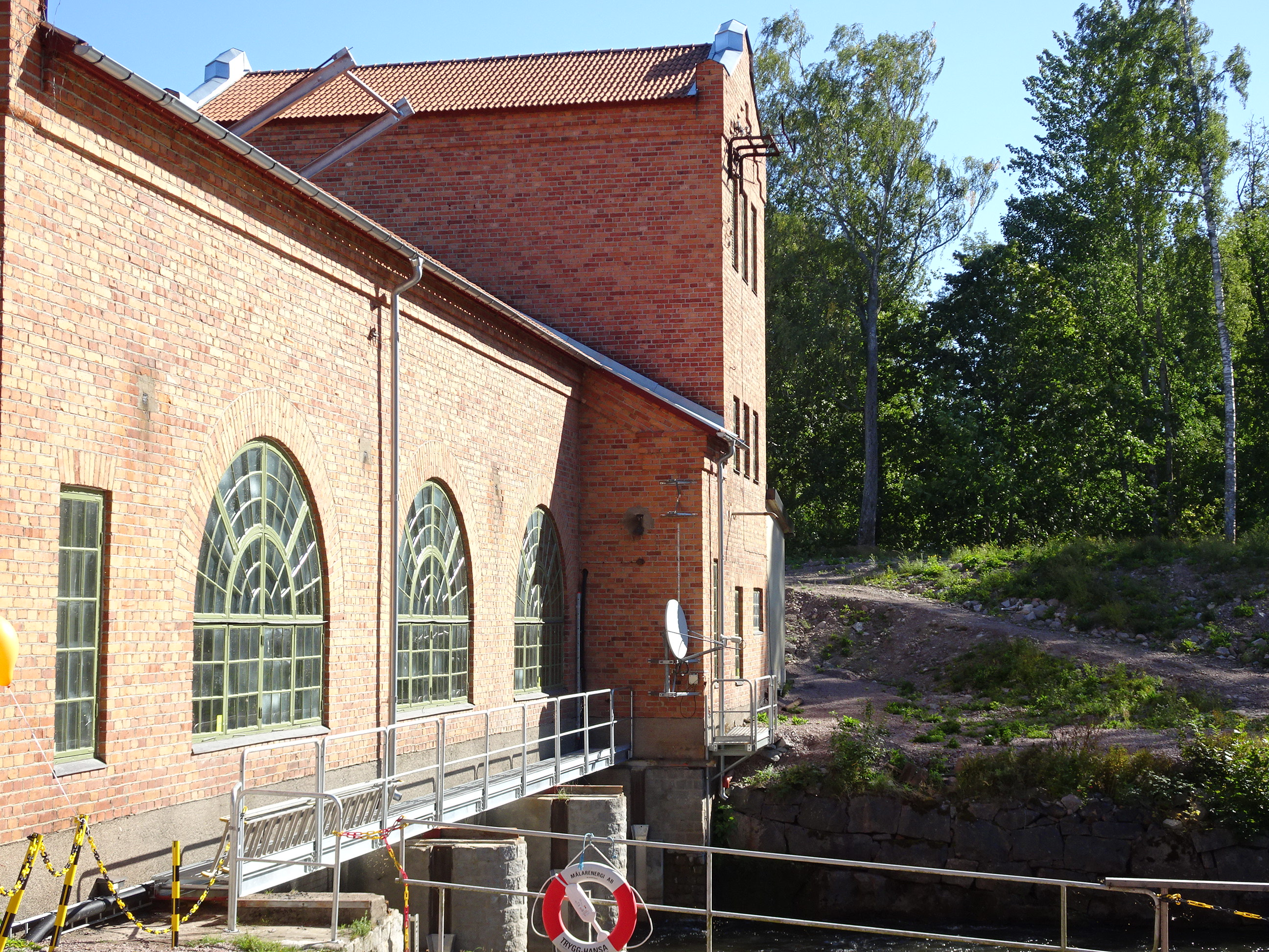 Västerkvarn hydroelectric power station. Built 1915, upgraded 2016. Located in Mölntorp Sweden